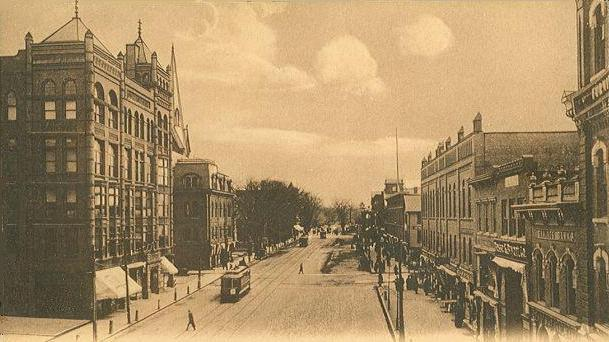 Main Street, Nashua, NH; from a c. 1905 postcard.